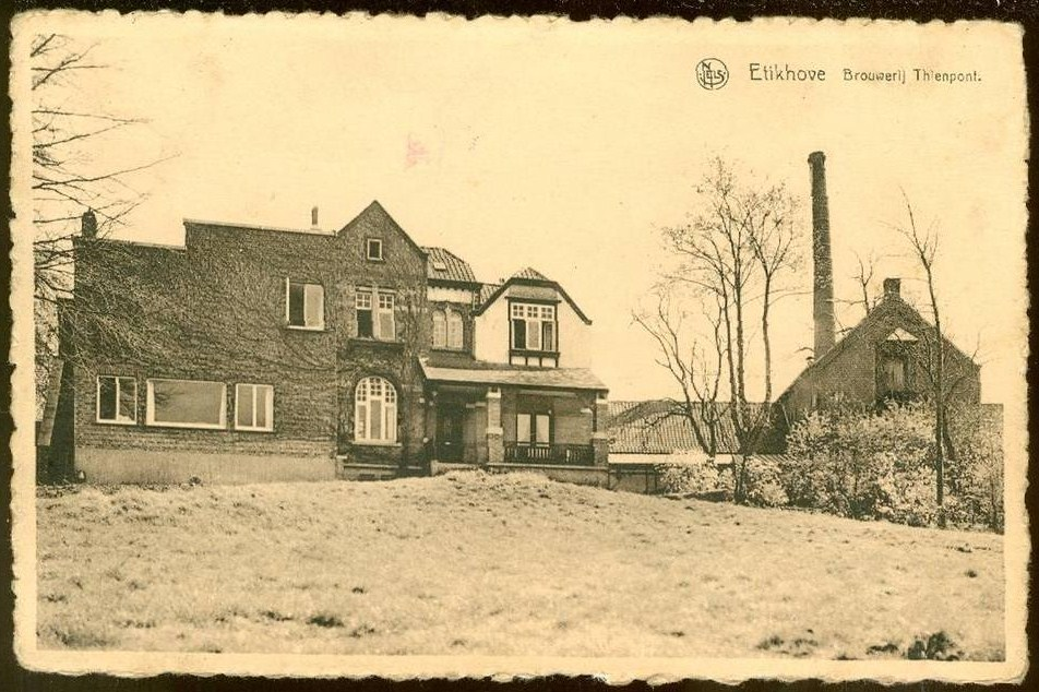 I took a picture of an old postcard (1928) where you can see the brewery of the village etikhove (Belgium)